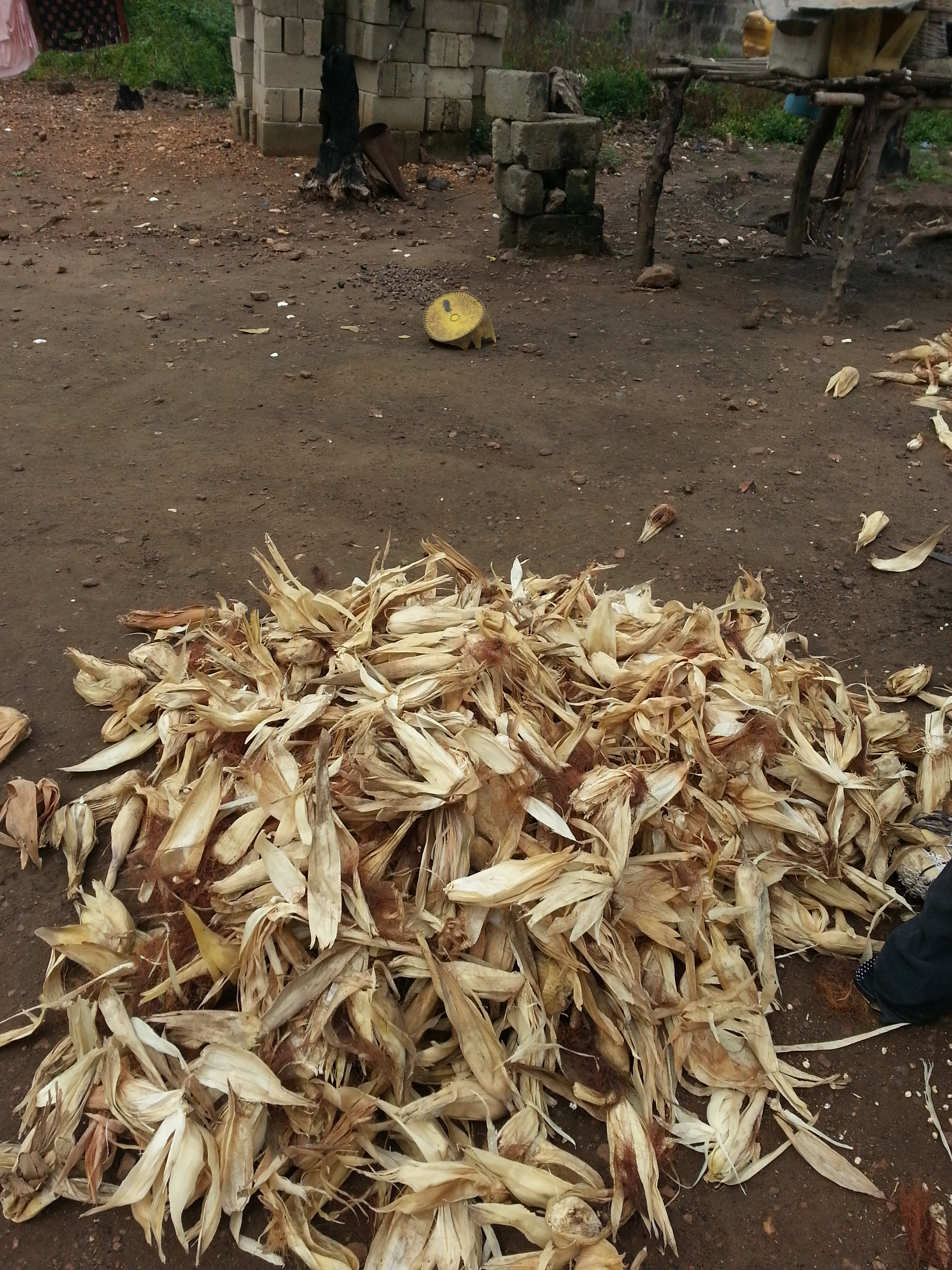 maize husks after the grains have been removed from the cobs this used to cover balls of Ga Kenkey